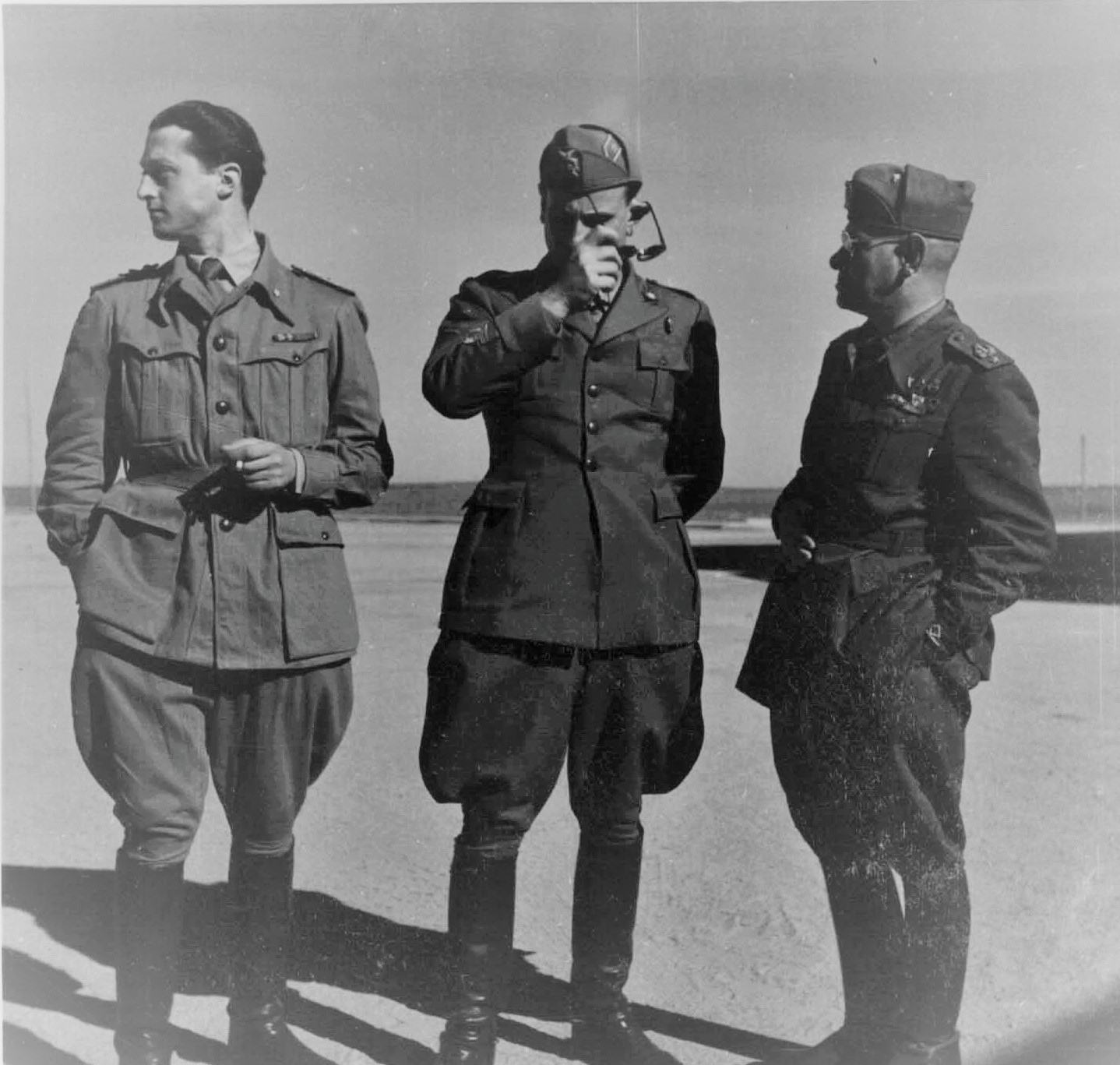 Italian generals Ettore Baldassarre, Michelangelo Niccolini and Giacomo Lombardi